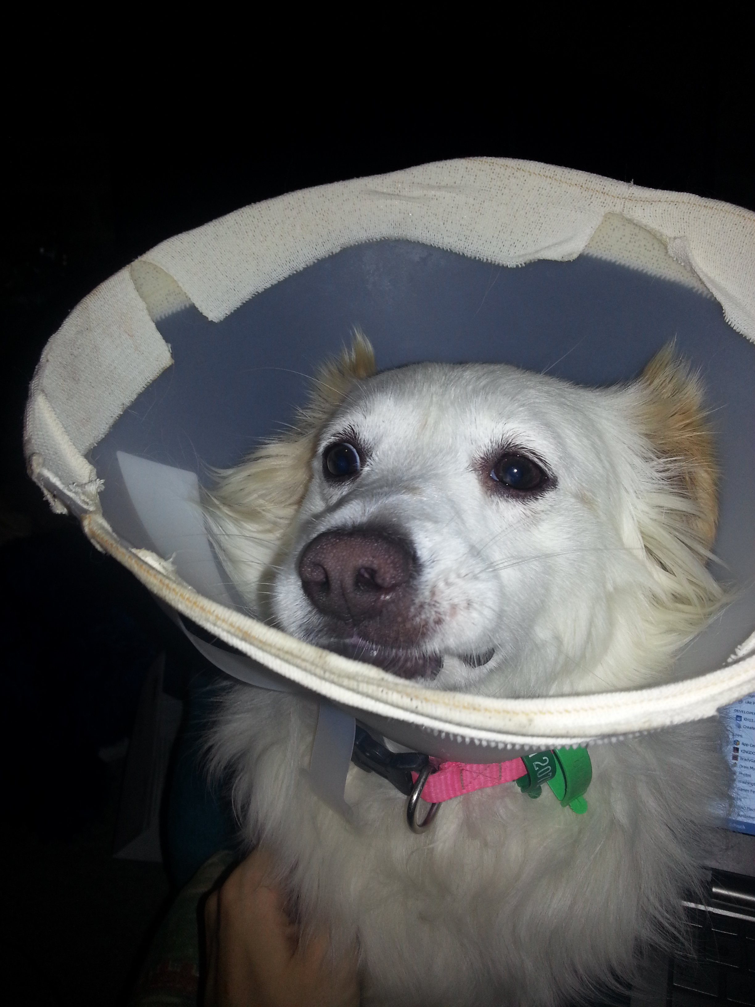 Pensive dog